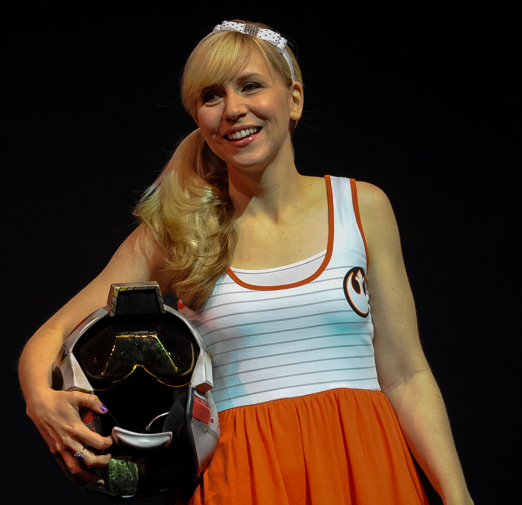 Disney Social Media Moms Celebration - Ashley Eckstein